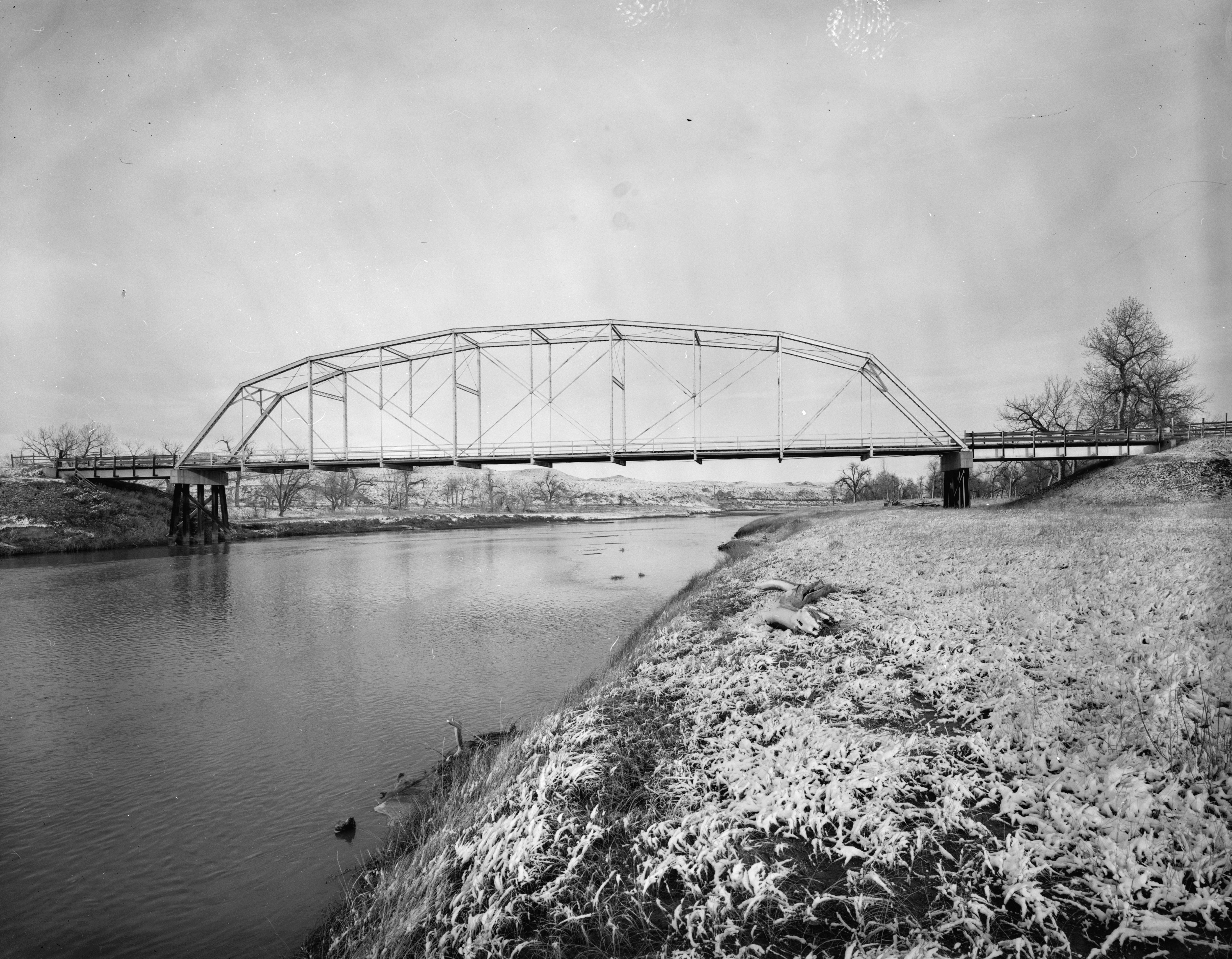 Northern side of the EDZ Irigary Bridge, which carries County Road CN16-254 over the Powder River near Sussex in Johnson County, Wyoming, United States. Built in 1913, this Pennsylvania through truss bridge is listed on the National Register of Historic Places.